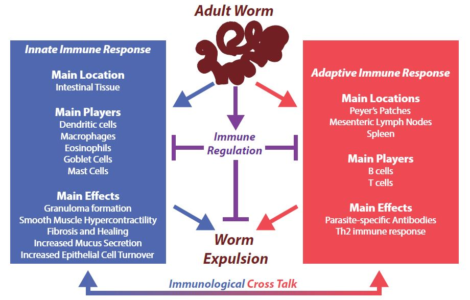 Immunological responses to H. polyrgyrus infection